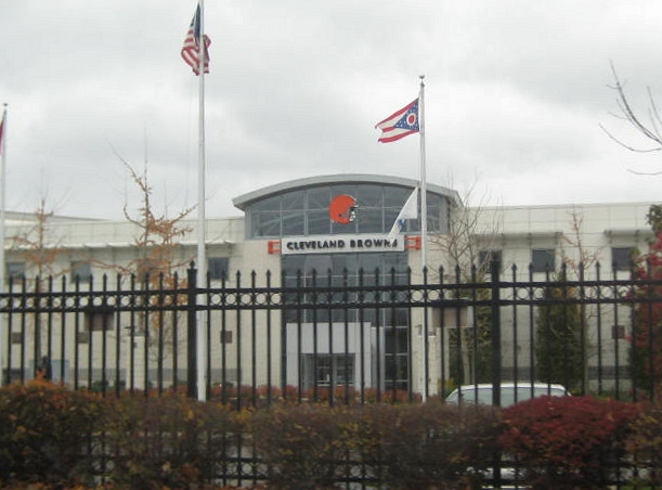 Offices of the Cleveland Browns in Berea, Ohio